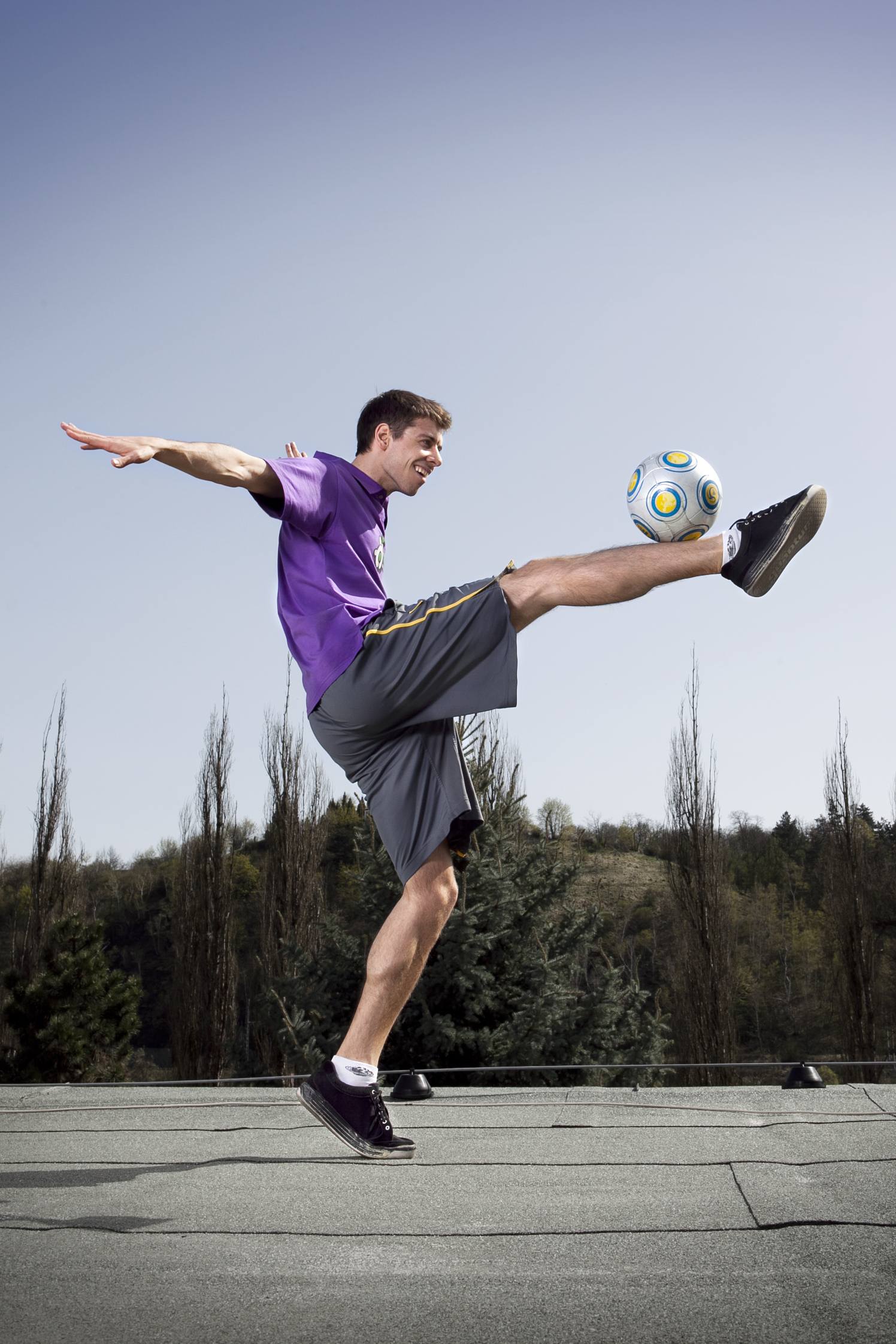 jan honza weber freestyle fottball